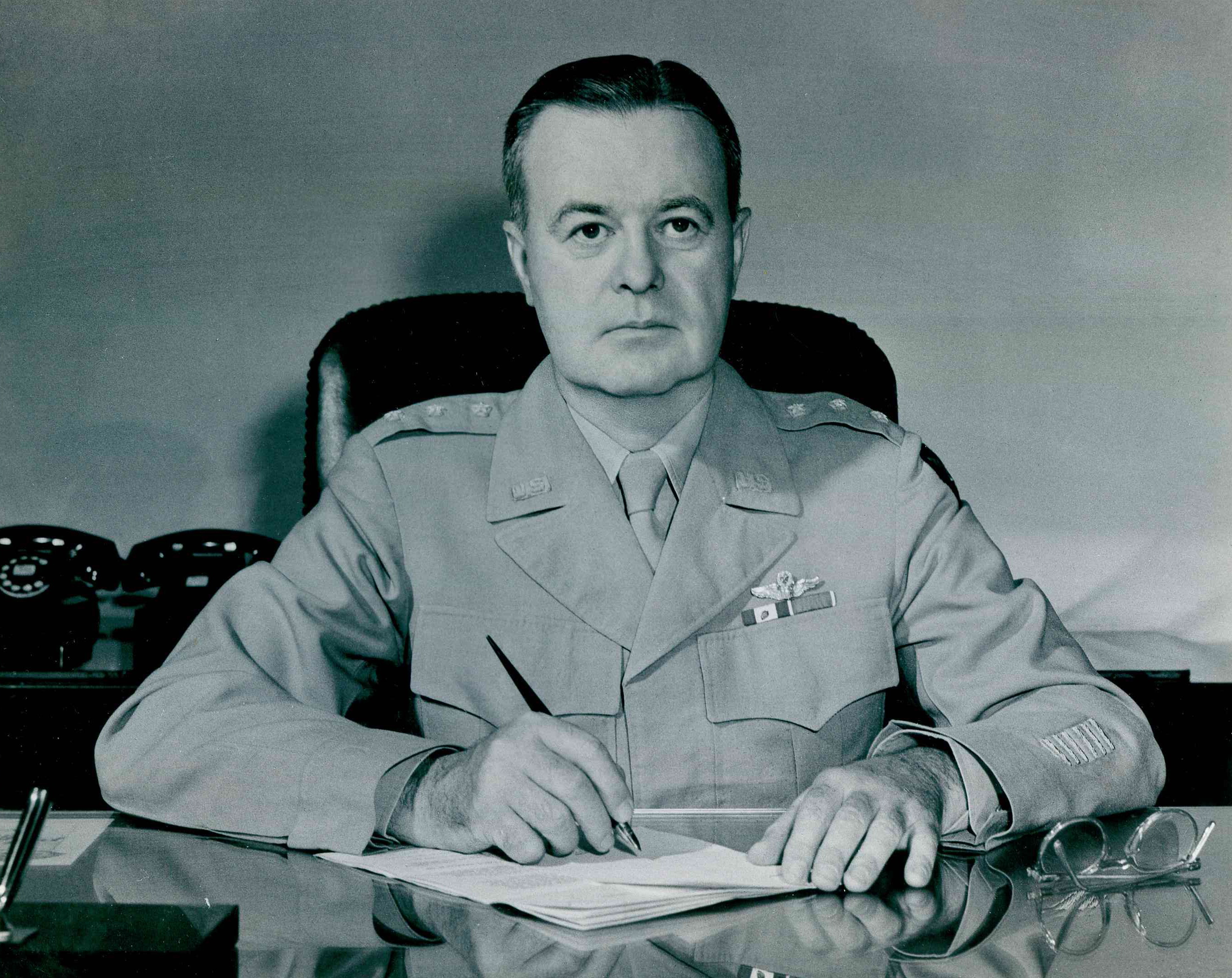 Lieutenant General Idwal H. Edwards.